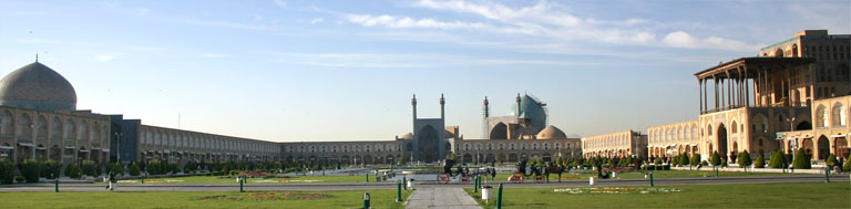 Naghsh-i Jahan Square, Isfahan